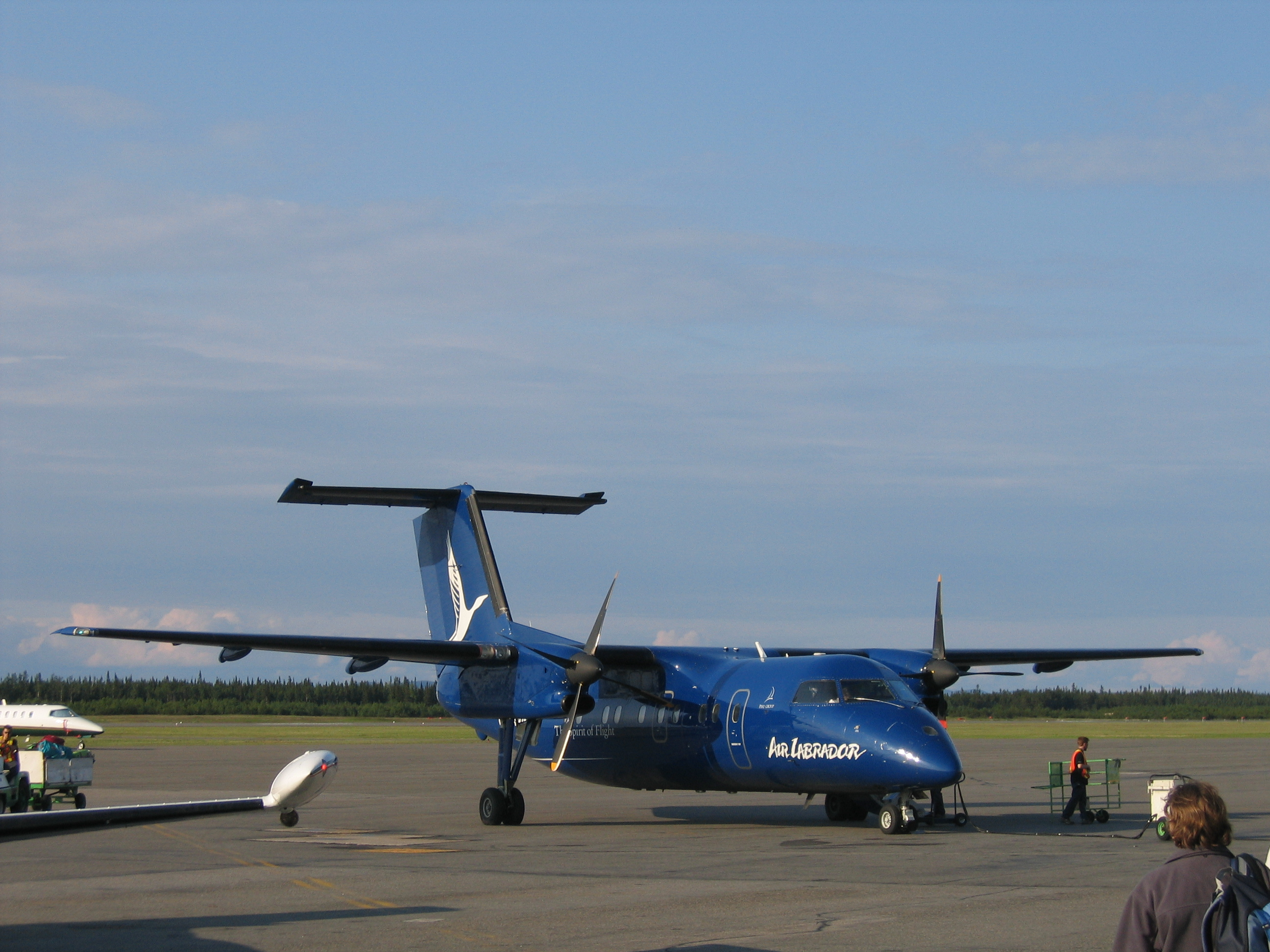 A "De Havilland Canada Dash 8" of Air Labrador 5 July 2006, Sept-Îles, Quebec, Canada Photo: SvdMolen